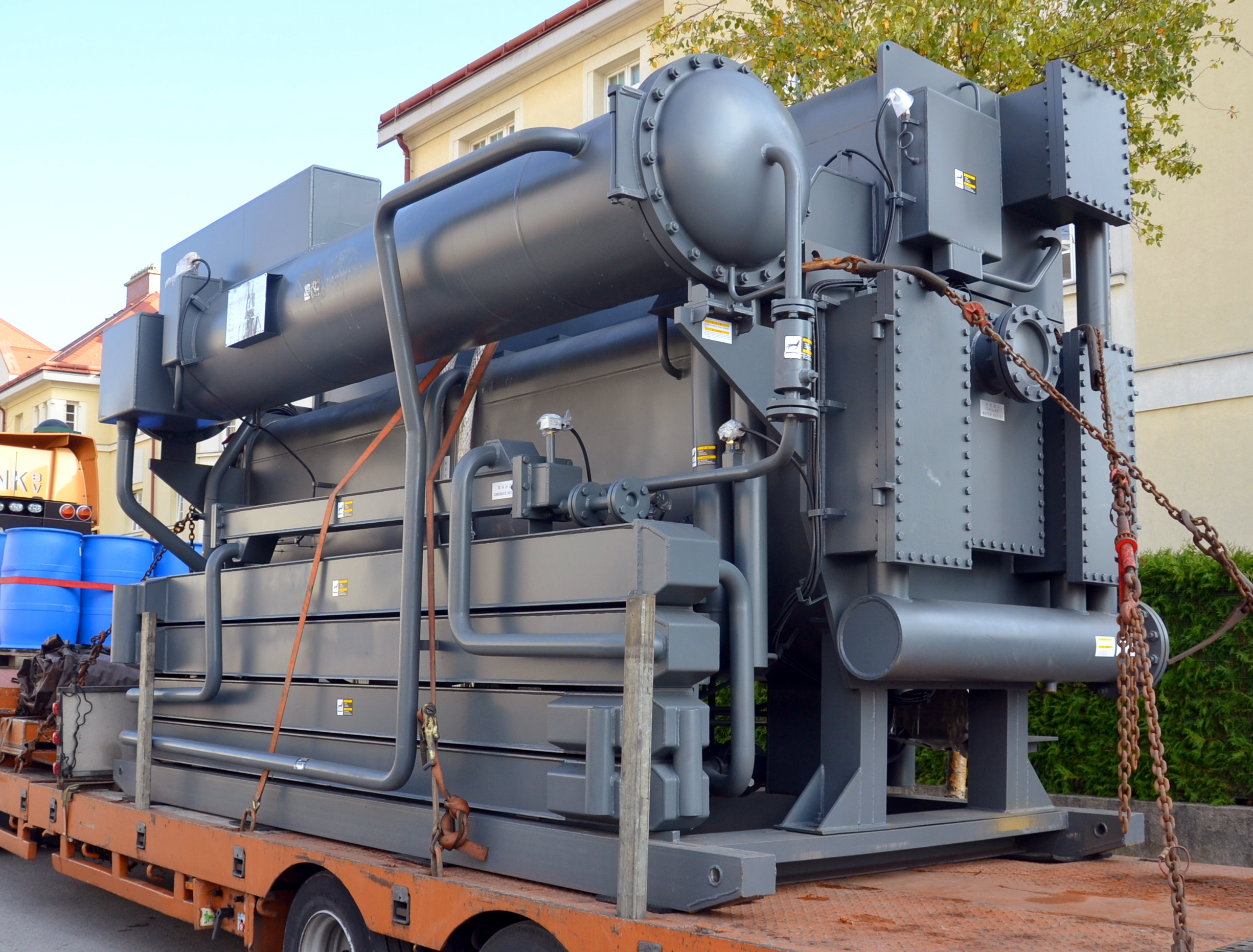 Absorber Colling Maschine